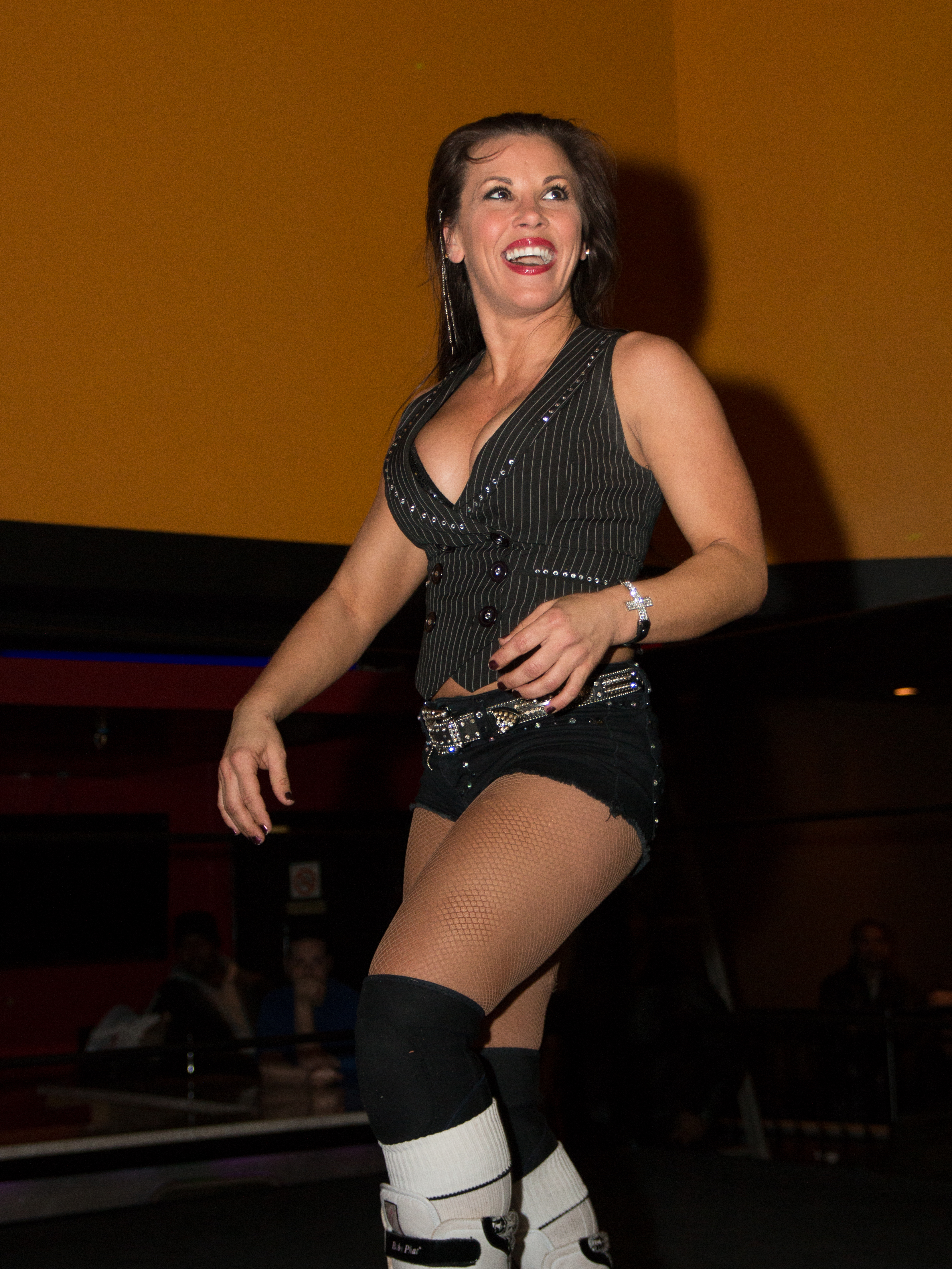 Wrestler Mickie James at Smash Wrestling's Danger Zone show in Etobicoke, ON